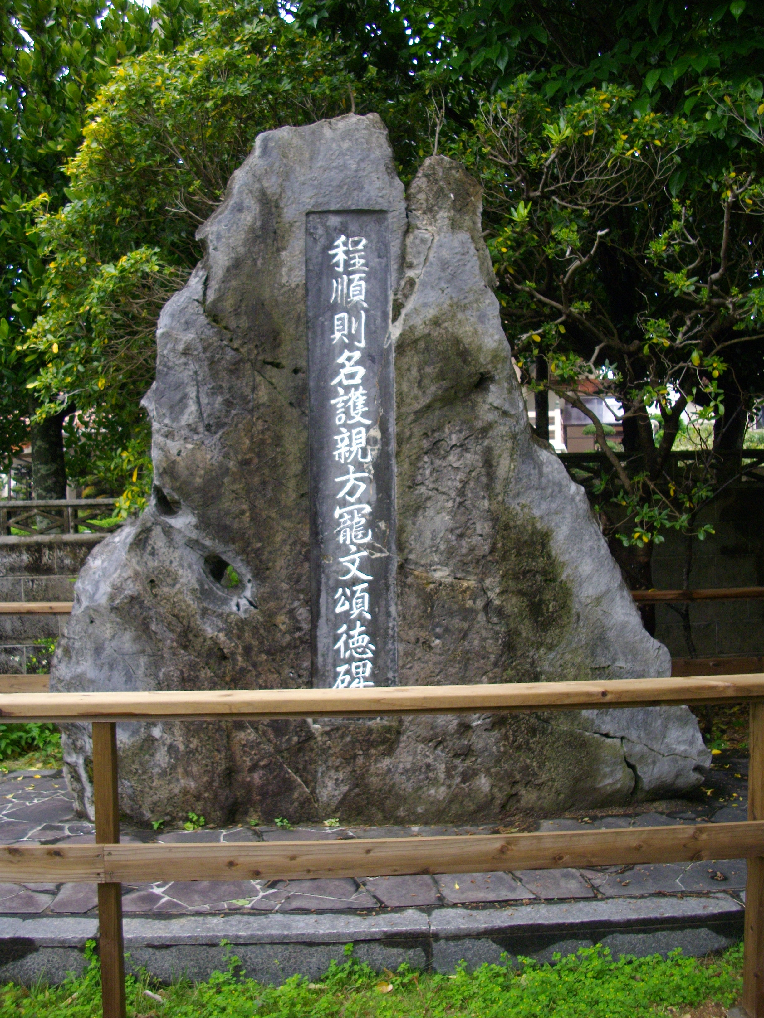 Stele monument at Shiseibyo Confucian temple in Naha, Okinawa, dedicated to Tei Junsoku, Ryukyuan government official and educational reformer.